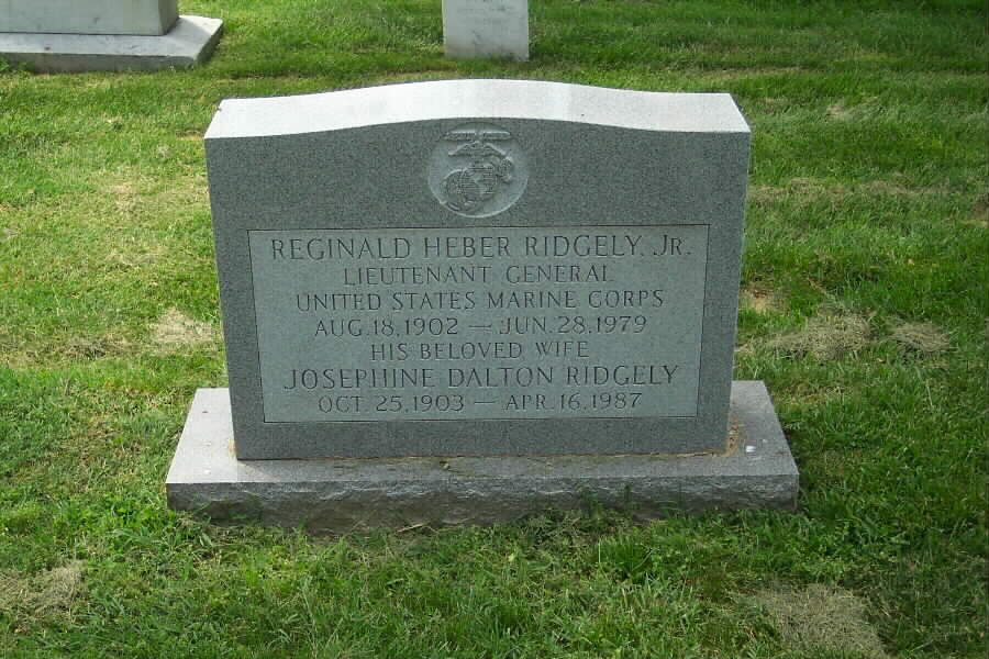 Arlington National Cemetery gravestone - Section 11 ANC